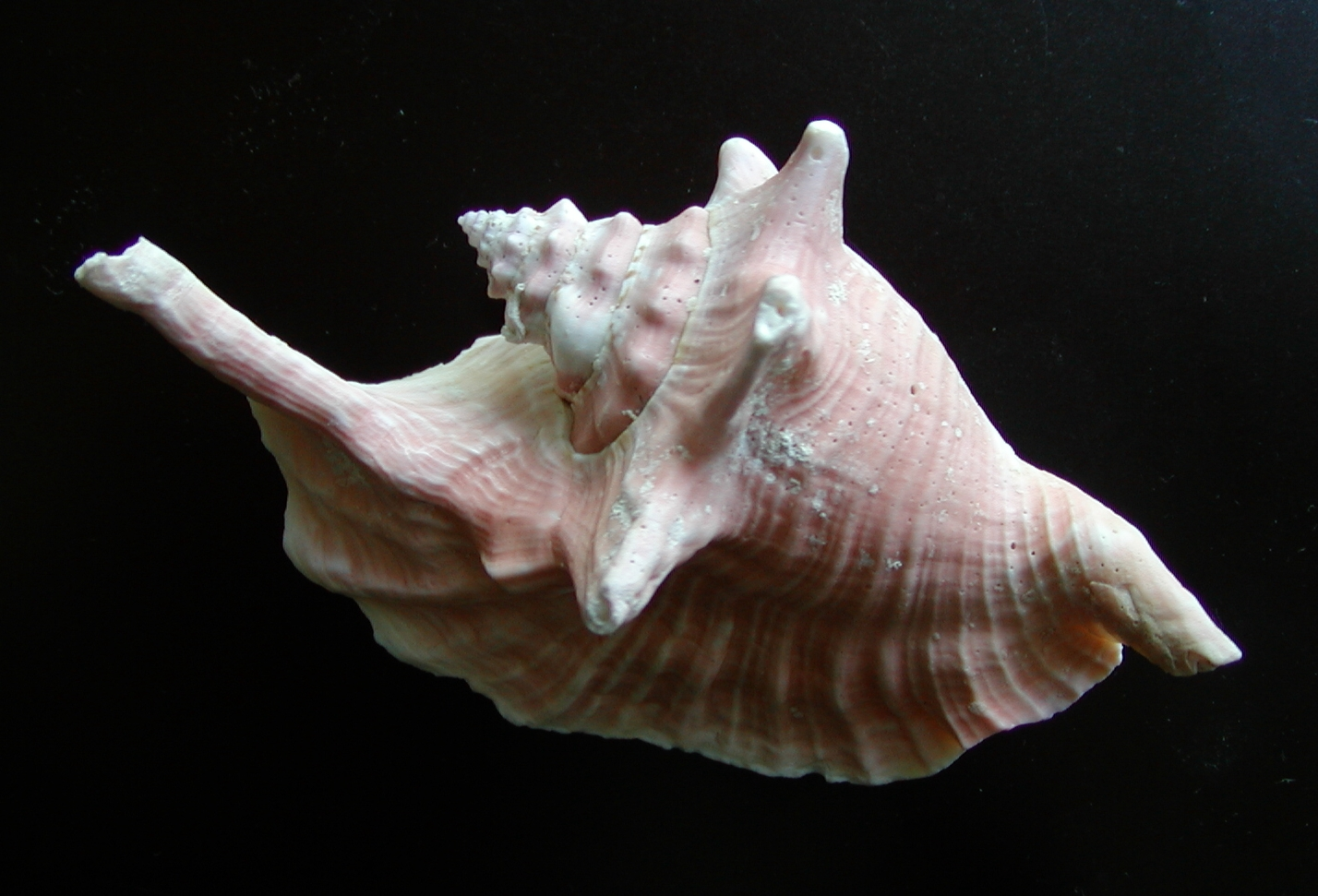 A photo of Lobatus gallus (synonym : Strombus gallus) or rooster conch, from Haiti.